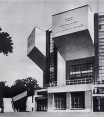 This photo was taken in Moscow in the late 1920s. Source Cooke, Catherine, (et al.) (1990) Architectural Drawings of the Russian Avant-Garde, The Museum of Modern Art ISBN 0-87070-556-3. Flysheet info says "Photograph credits:Plates from the A. V. Shchusev State Research Musuem of Architecture; Moscow. Category:Constructivist architecture